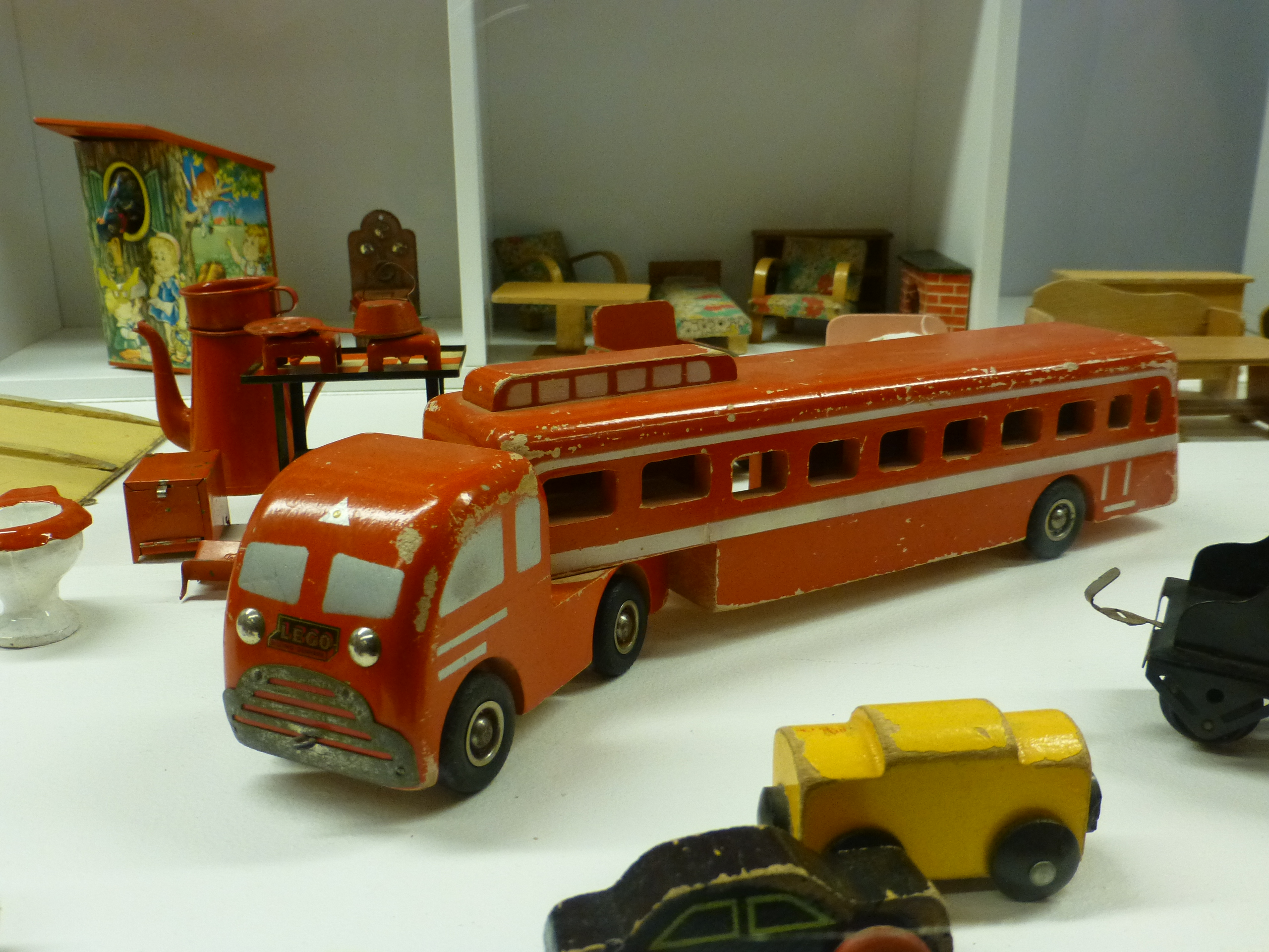 By og Overfartsmuseet in Korsør in Denmark, a museum for the town Korsør and the Great Belt Ferries. Wooden toy bus made by Lego as a model of the Danish bus Røde Orm (Red Worm).